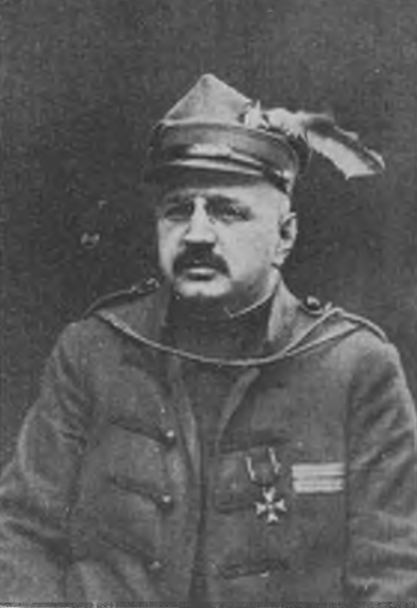 Emil Gajdas (1879–1948) Polish politician, member of the Silesian Parliament (1930-1939) and his deputy speaker [wicemarszałek] (1930-1932).